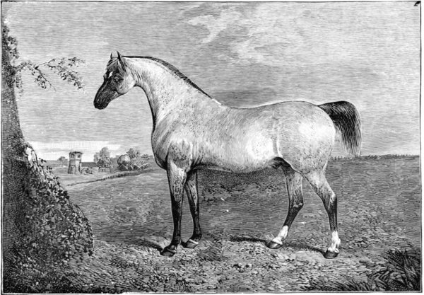 The Norfolk mare Phenomenon